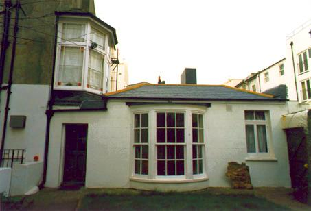 A typically quirky dwelling (a rear garden maisonette flat) in Kemptown, Brighton, UK